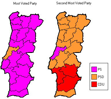 Electoral results in the Portuguese parliamentary election of 2005.